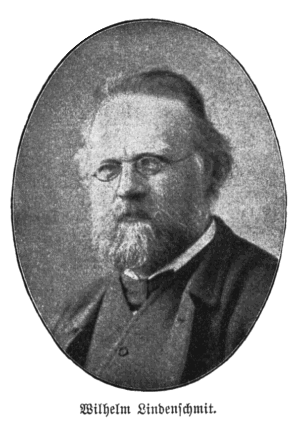 A portrait showing the German painter Wilhelm Lindenschmit d. J. (1829-1895)